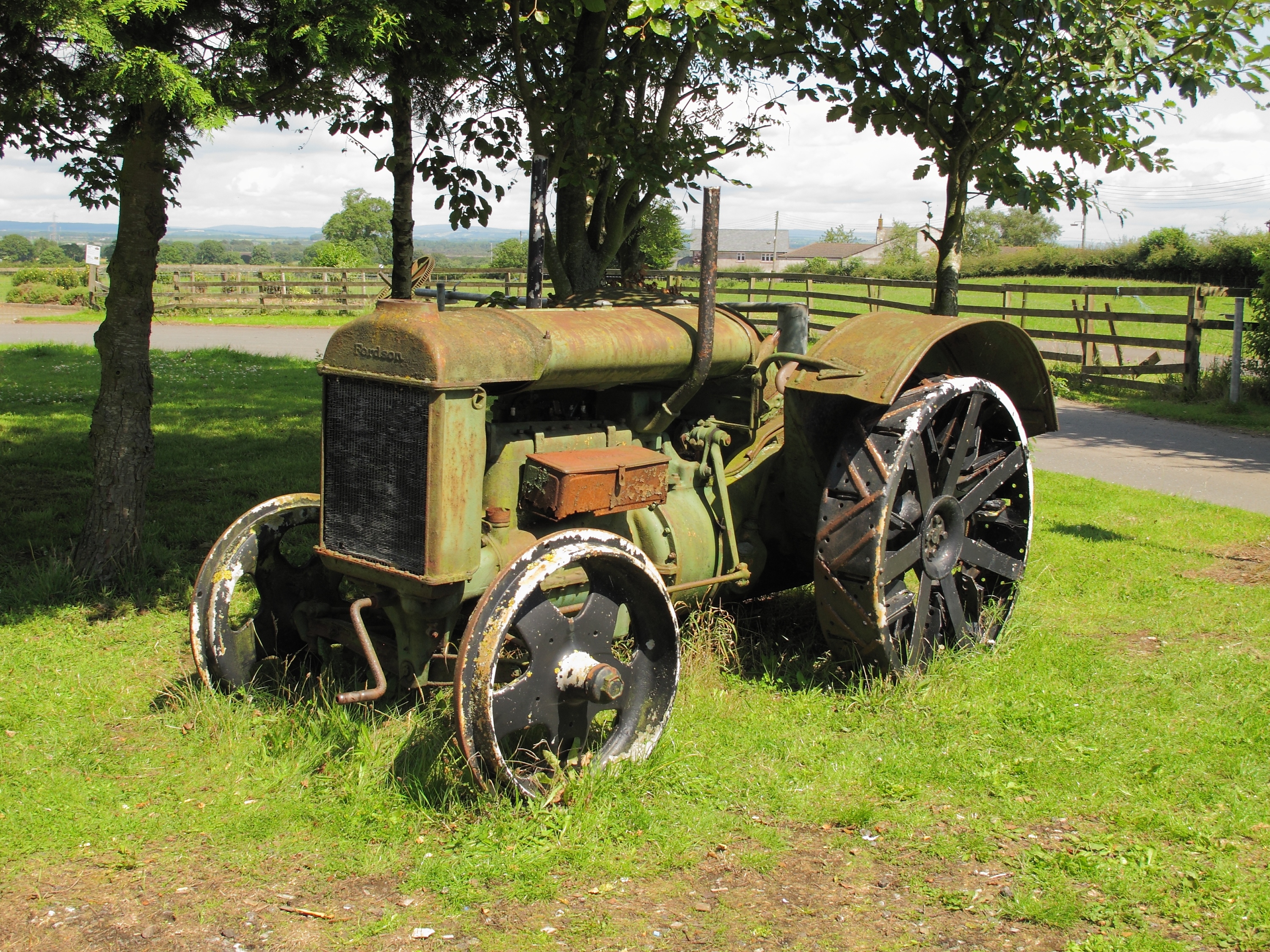 Old Fordson tractor, Gretna Green Services. – "I was surprised that the engine would still turn with the starting handle , so maybe hope for the old girl after all, however "She who must be obeyed" she say NO!! I can't make them an offer for it."